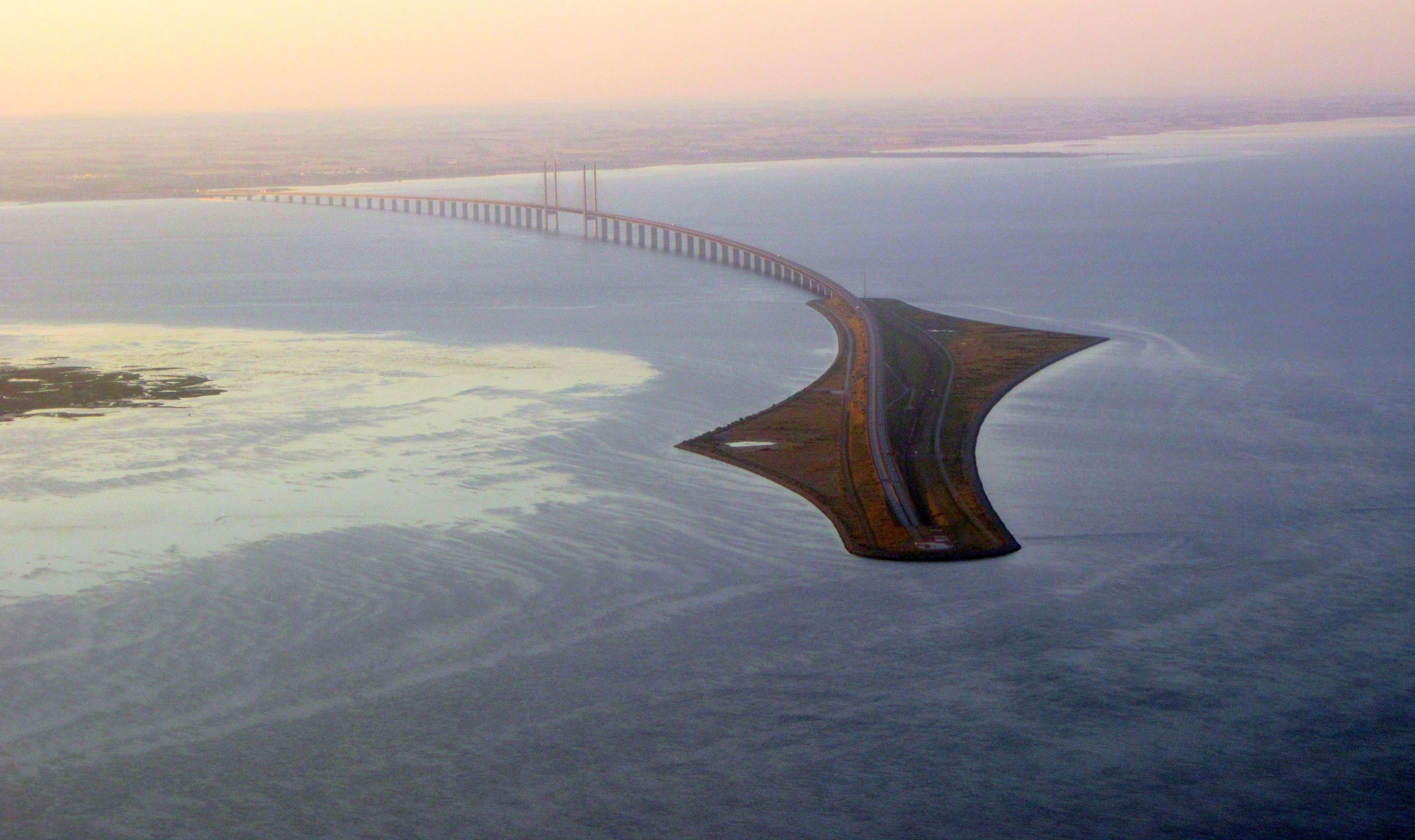 Peberholm and Øresund Bridge